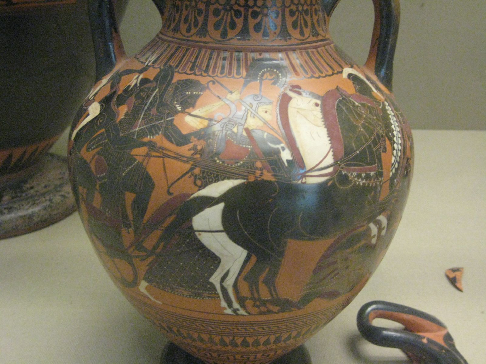 Black-Figured Amphora depicting the Battle of Gods and Giants. Made in Athens about 520-500 BC in the style of the Lysippides painter.